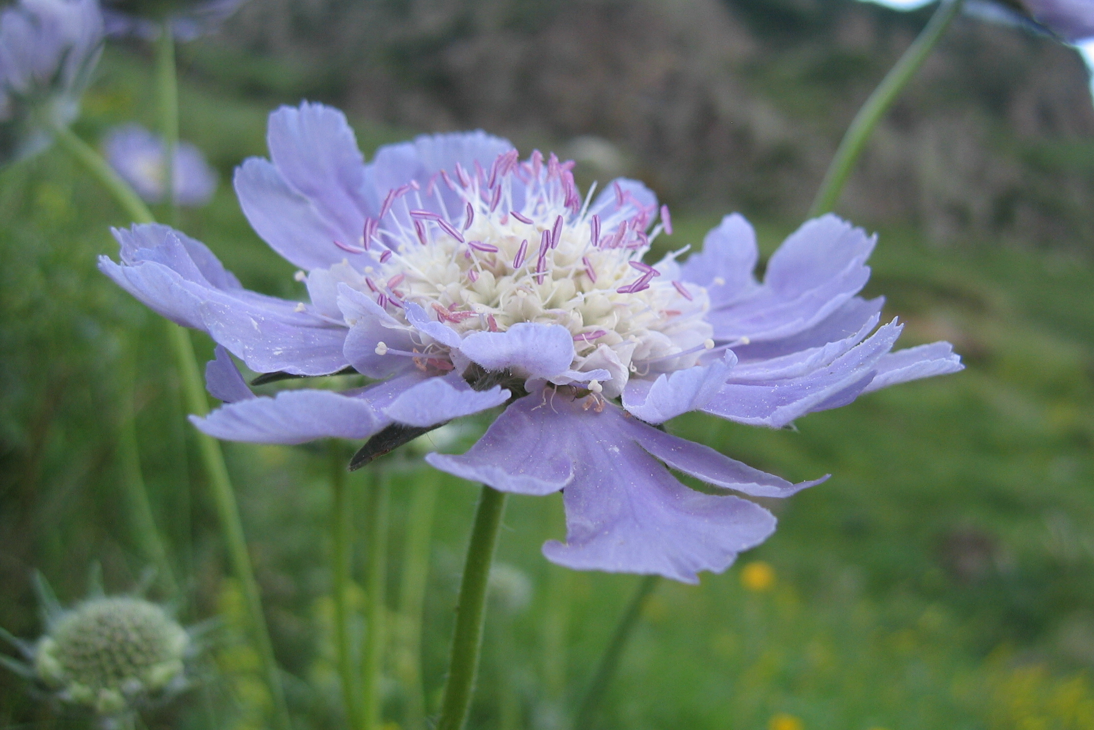 Scabiosa caucasica, a species endemic to the Caucasus in its natural habitat.